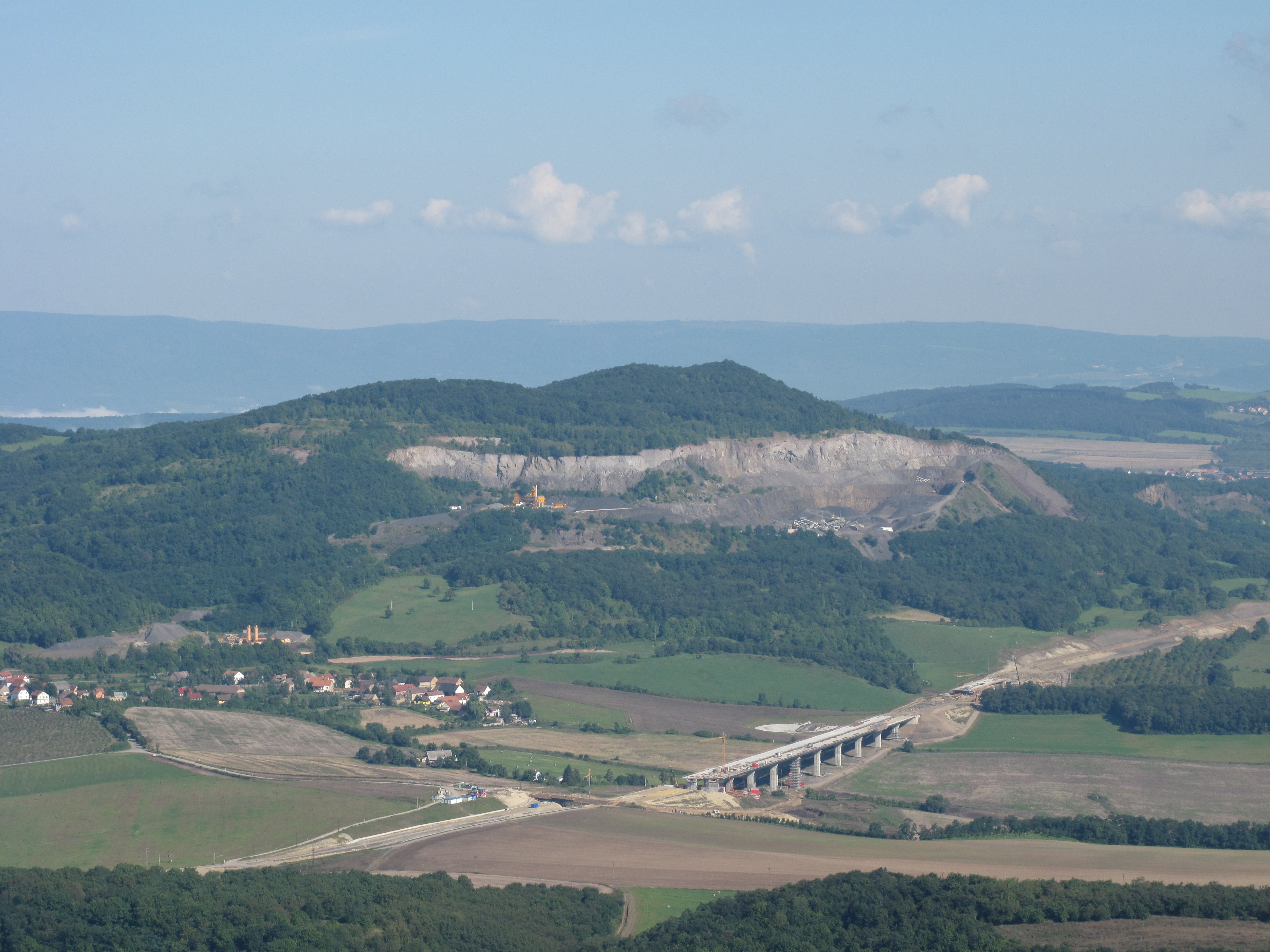 View from Lovoš Hill, Litoměřice District, Czech Republic.